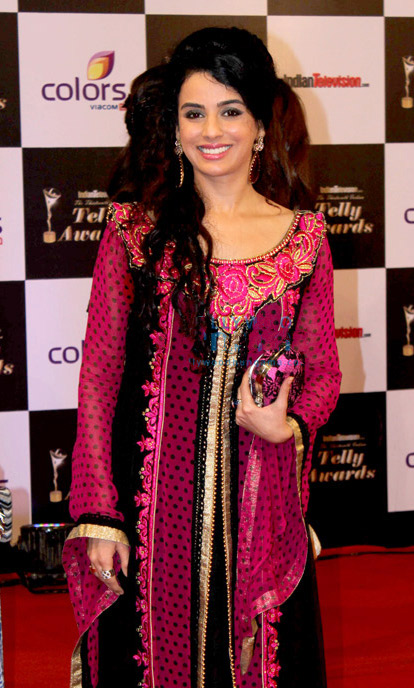 Sara Khan at the 13th Indian Telly Awards 2014